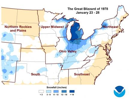 Snowfall map for the Great Blizzard of 1978 in accordance with the Regional Snowfall Index